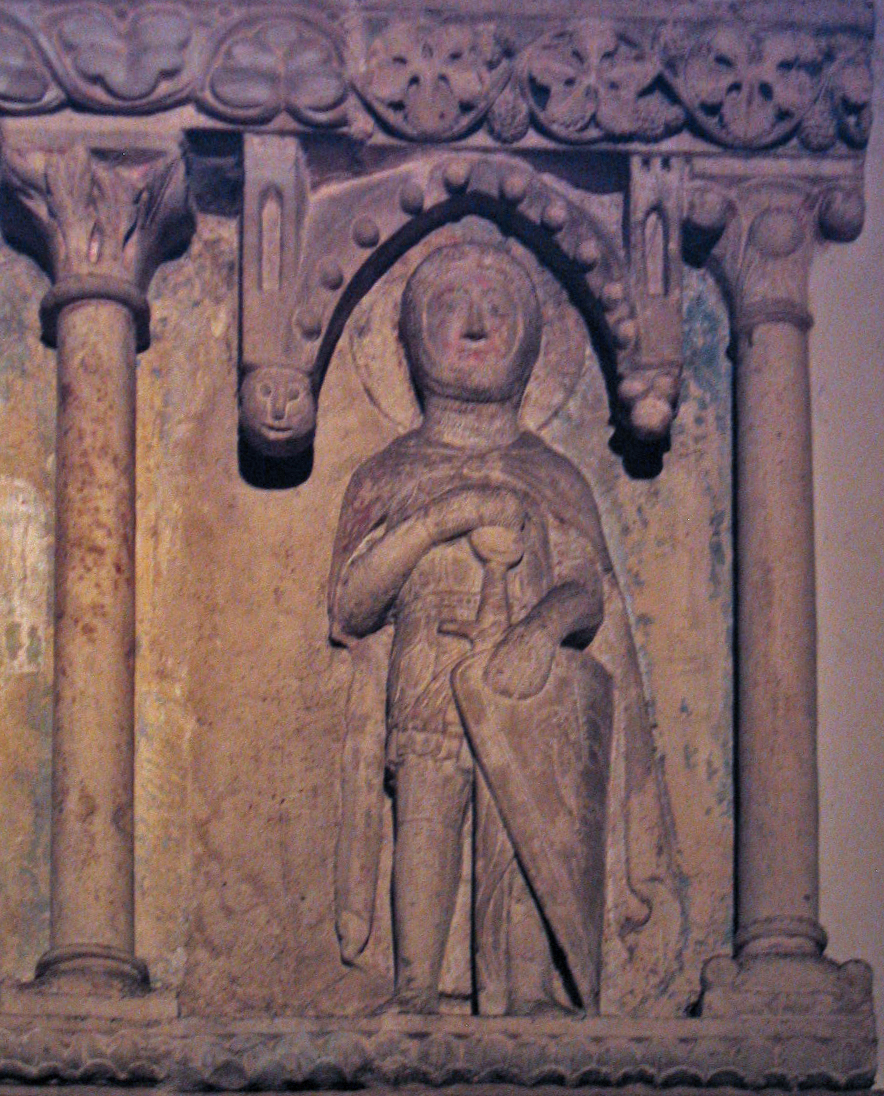 Cathedral in Minden, District of Minden-Lübbecke, North Rhine-Westphalia, Germany.